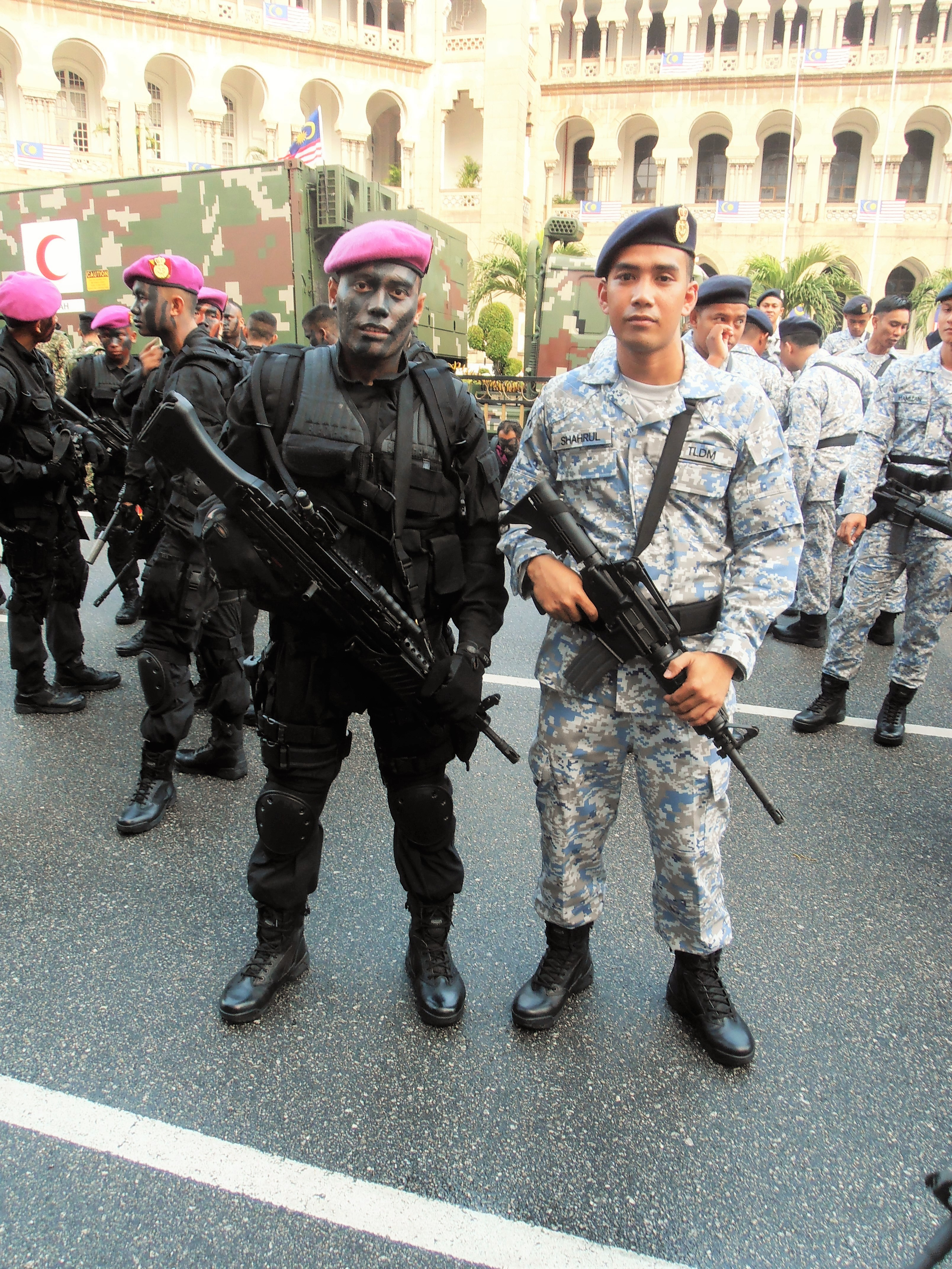 PASKAL operative with black BDU holding his Heckler & Koch MG4-KE light machinegun while the sailor of Royal Malaysian Navy with his M4A1 Carbine.